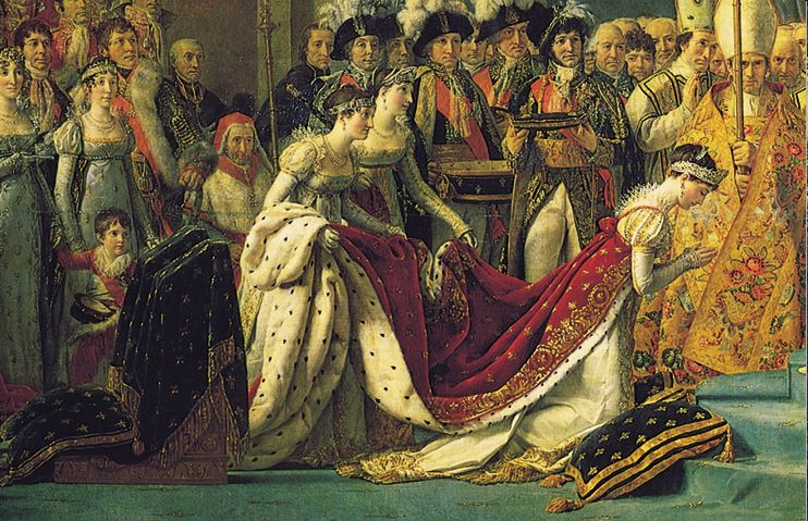 Detail of the painting Sacre de l'empereur Napoléon Ier, 1807, by Jacques-Louis David. Source is File:Jacques-Louis David, The Coronation of Napoleon edit.jpg.